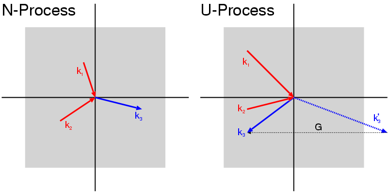 Normal- and Umklapp scattering for phonons. Image created using Tgif.